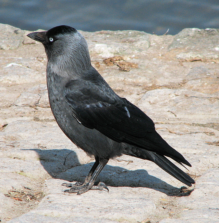 Jackdaw (Coloeus monedula)